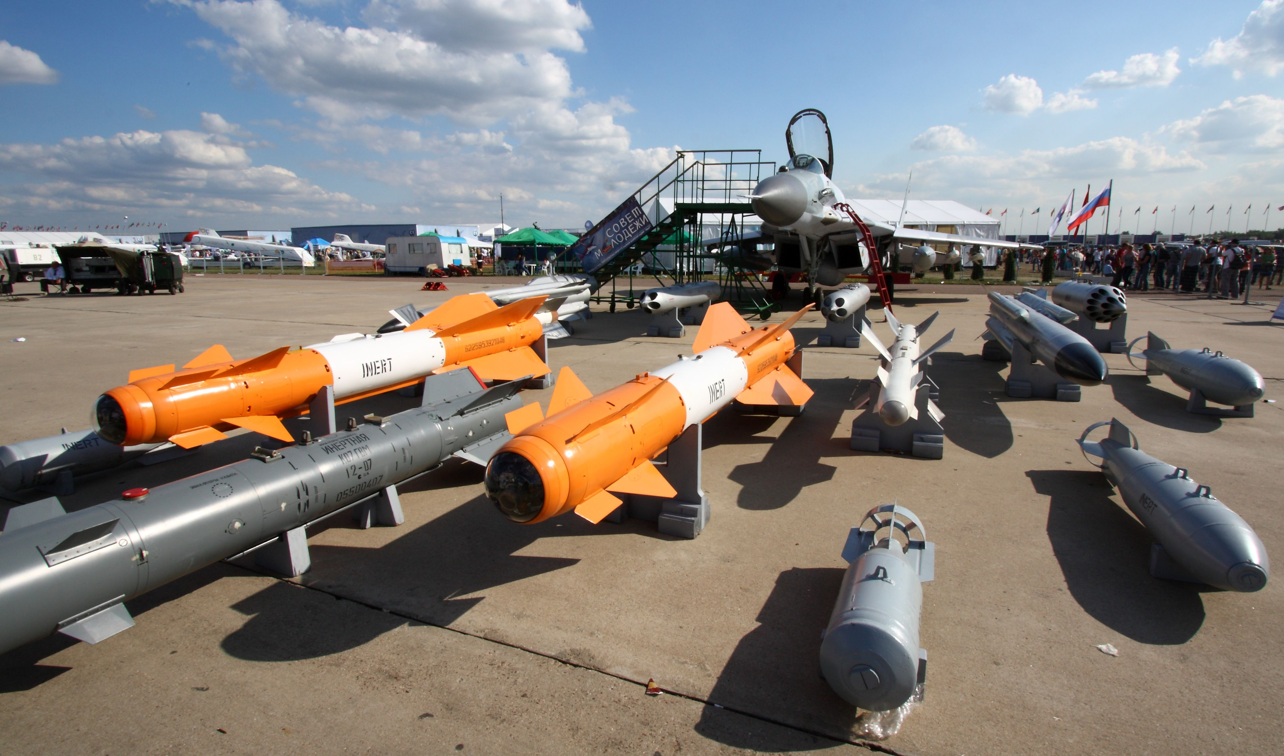 Fighter Mikoyan-Gurevich MiG-29SMT (The international aerospace salon MAKS-2011)